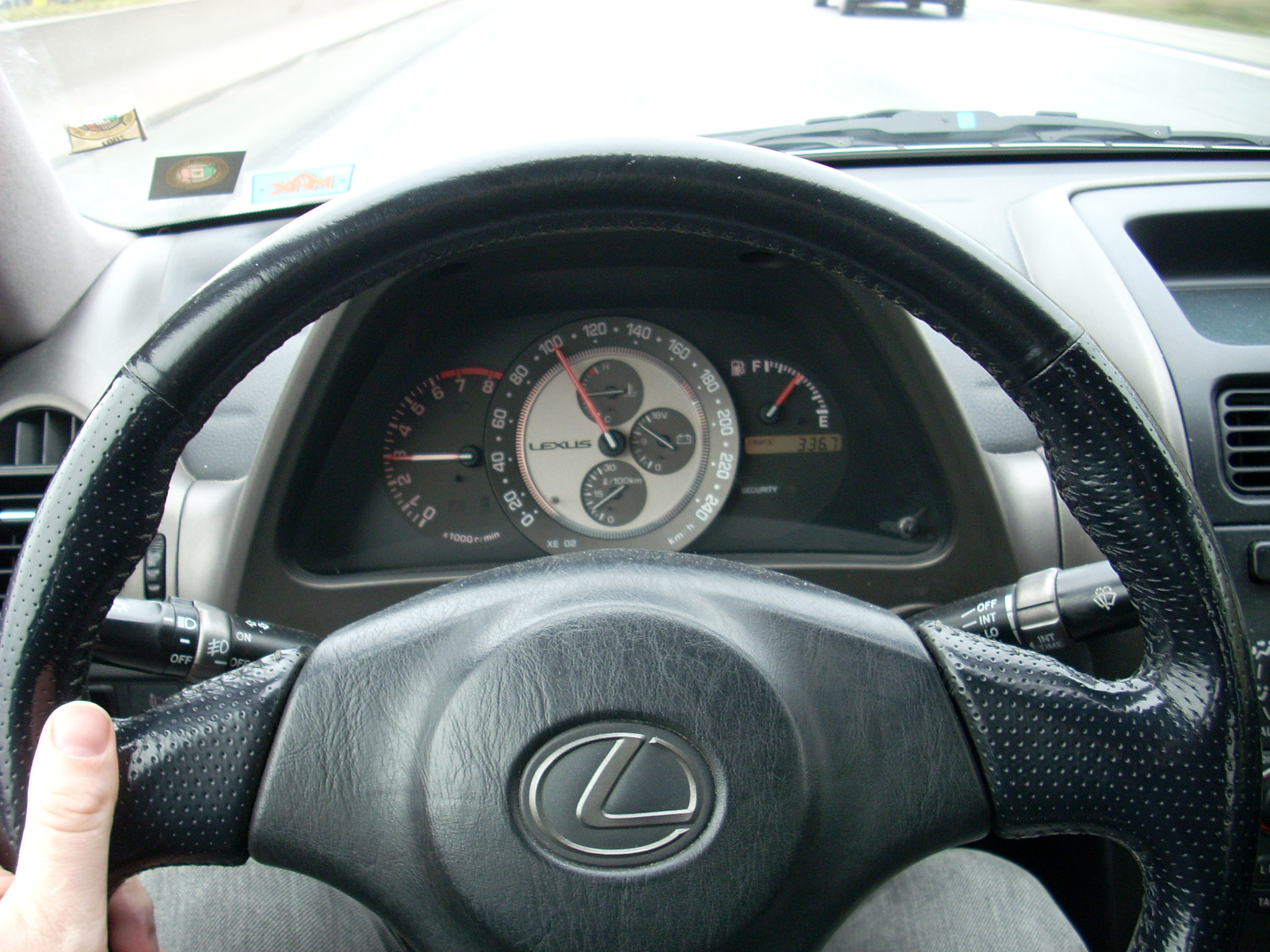 The dashboard of a 1999 Lexus IS 200.